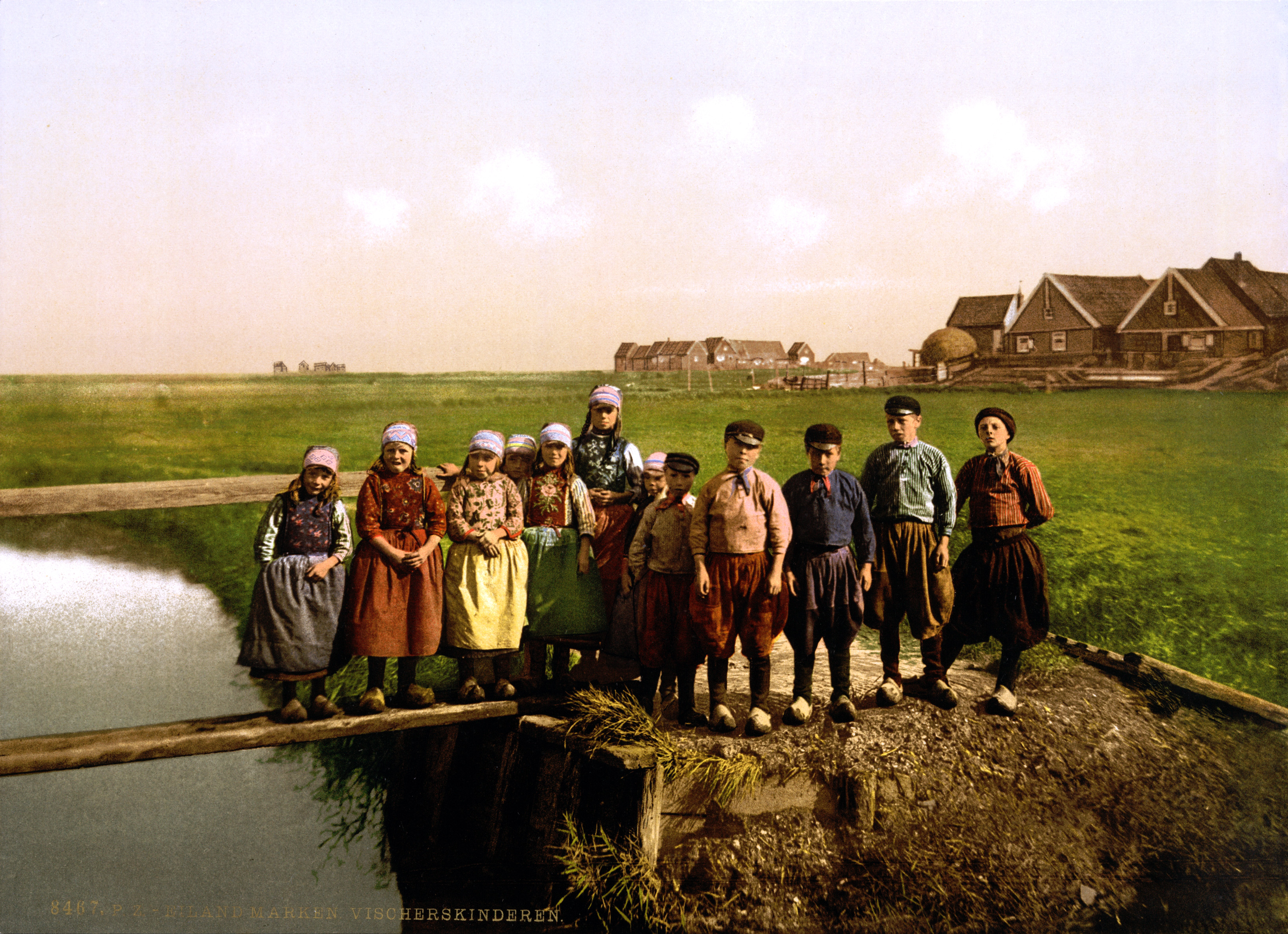 Children, Marken Island, North Holland, the Netherlands. 1 photomechanical print : photochrom, color.